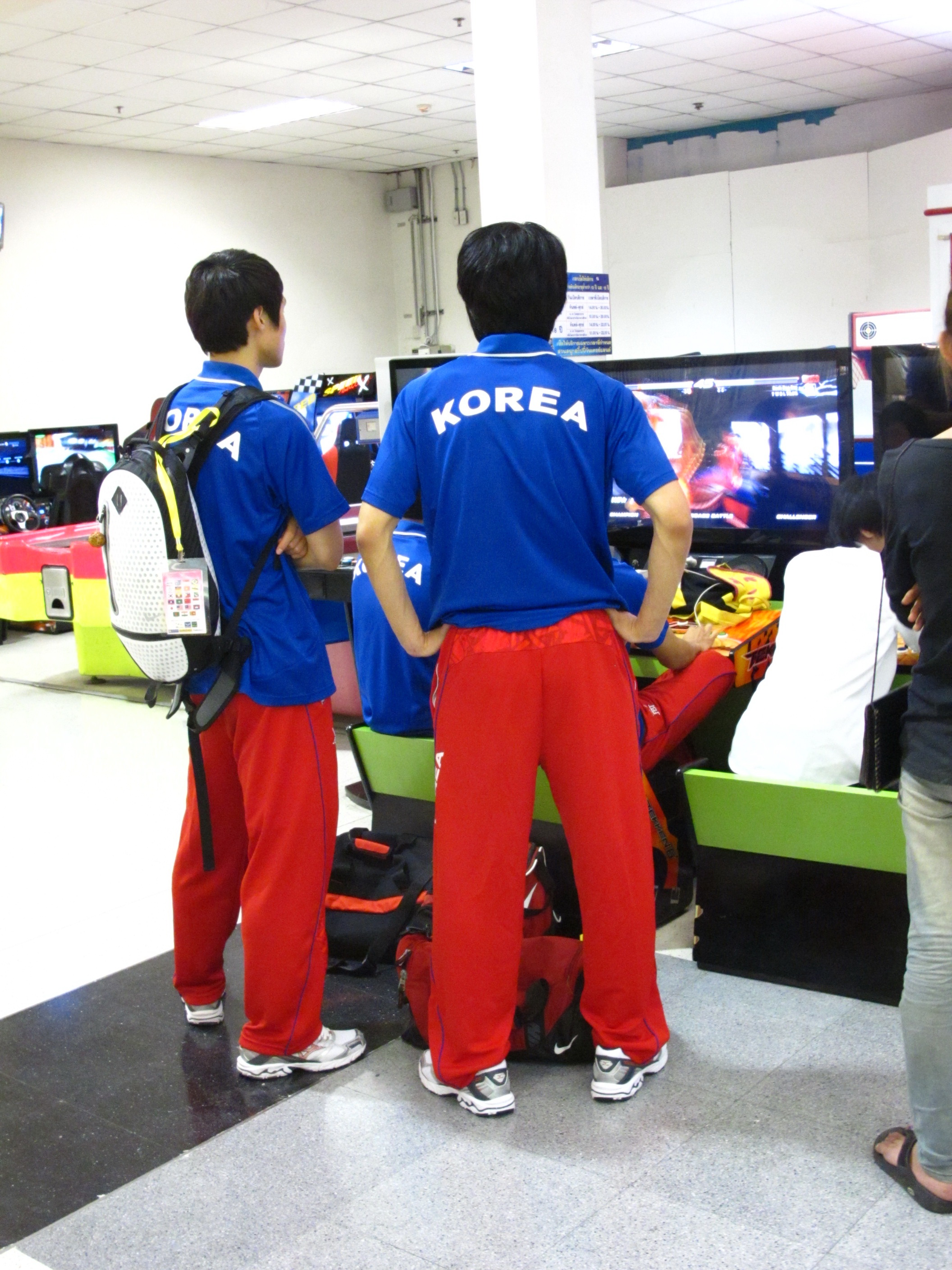 Korean play fighting game